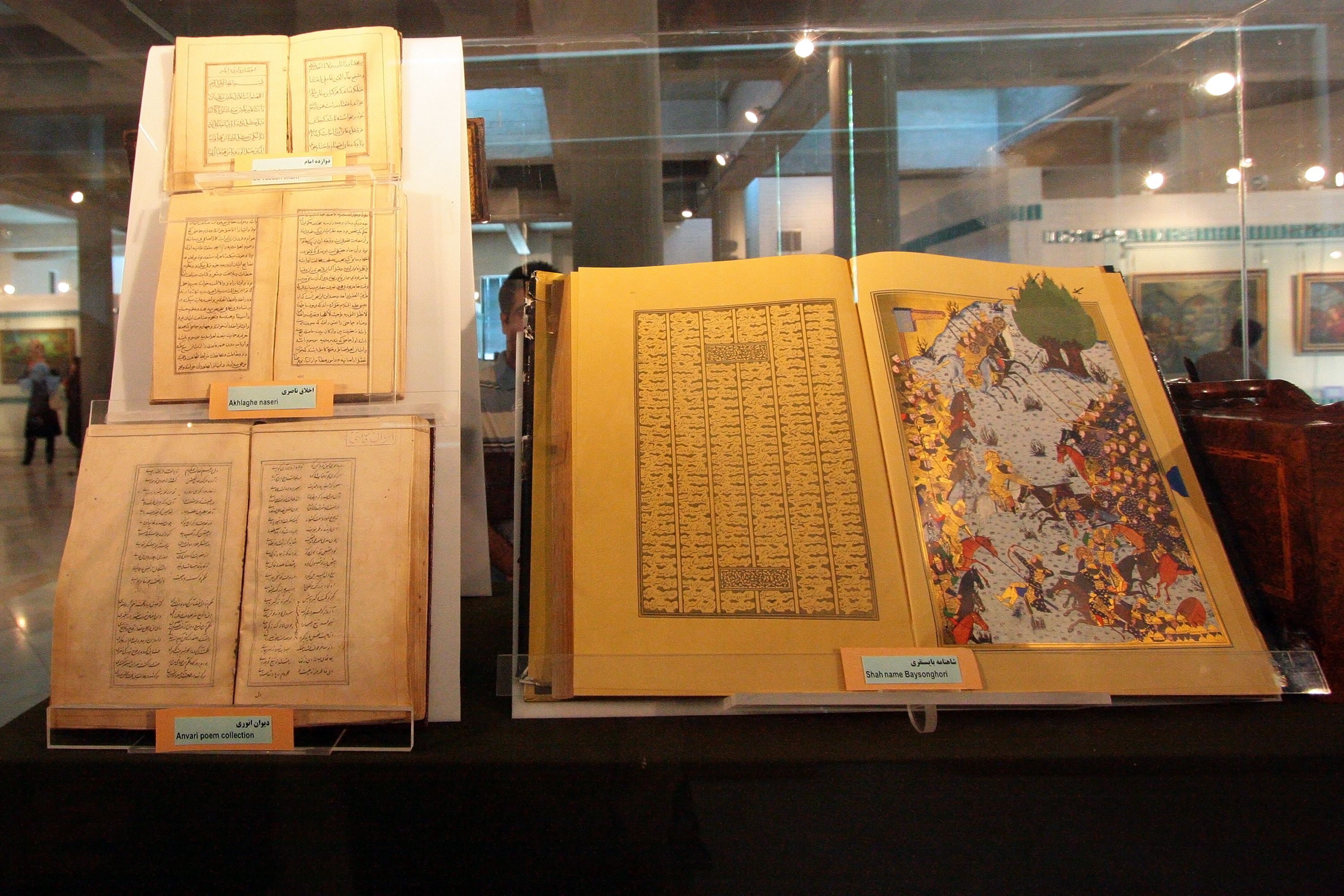 The Shahnameh, also transliterated as Shahnama is a long epic poem written by the Persian poet Ferdowsi between c. 977 and 1010 CE and is the national epic of Greater Iran.